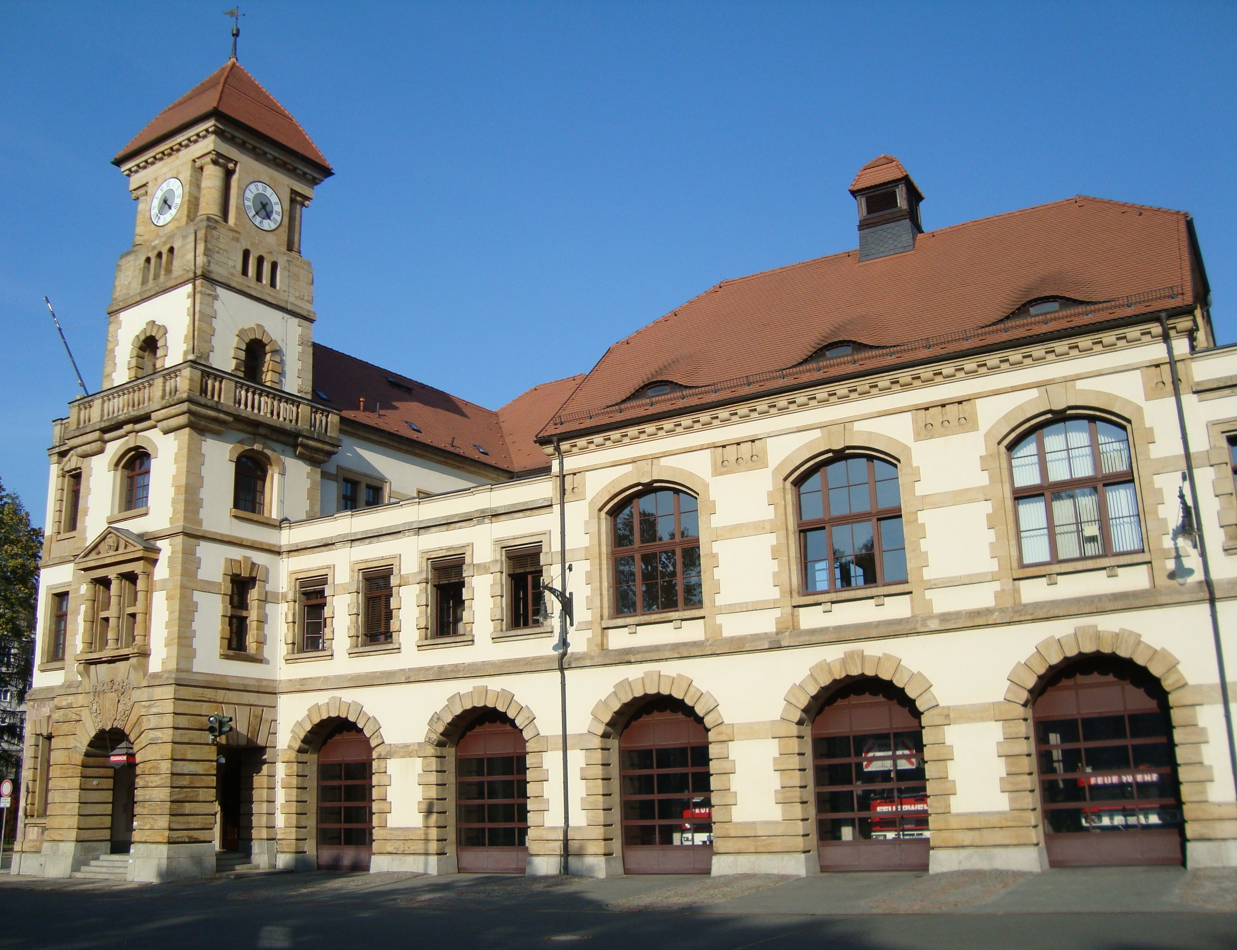 firestation in Chemnitz